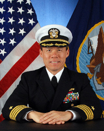 Capt. Joker L. Jenkins